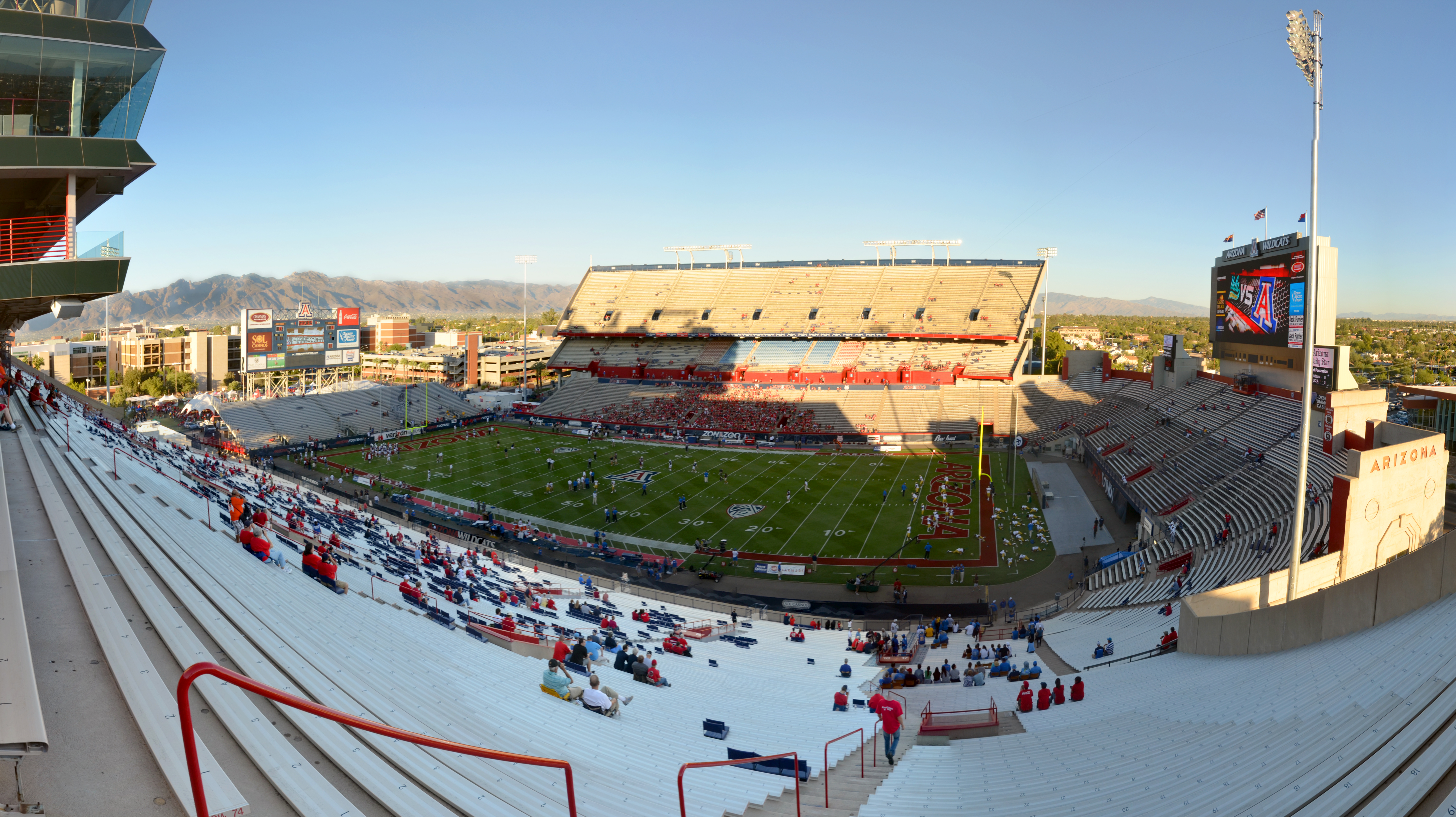 Looking west from the visiting team's section, with the press box on the left and the new video board on the right. Taken in 2011.